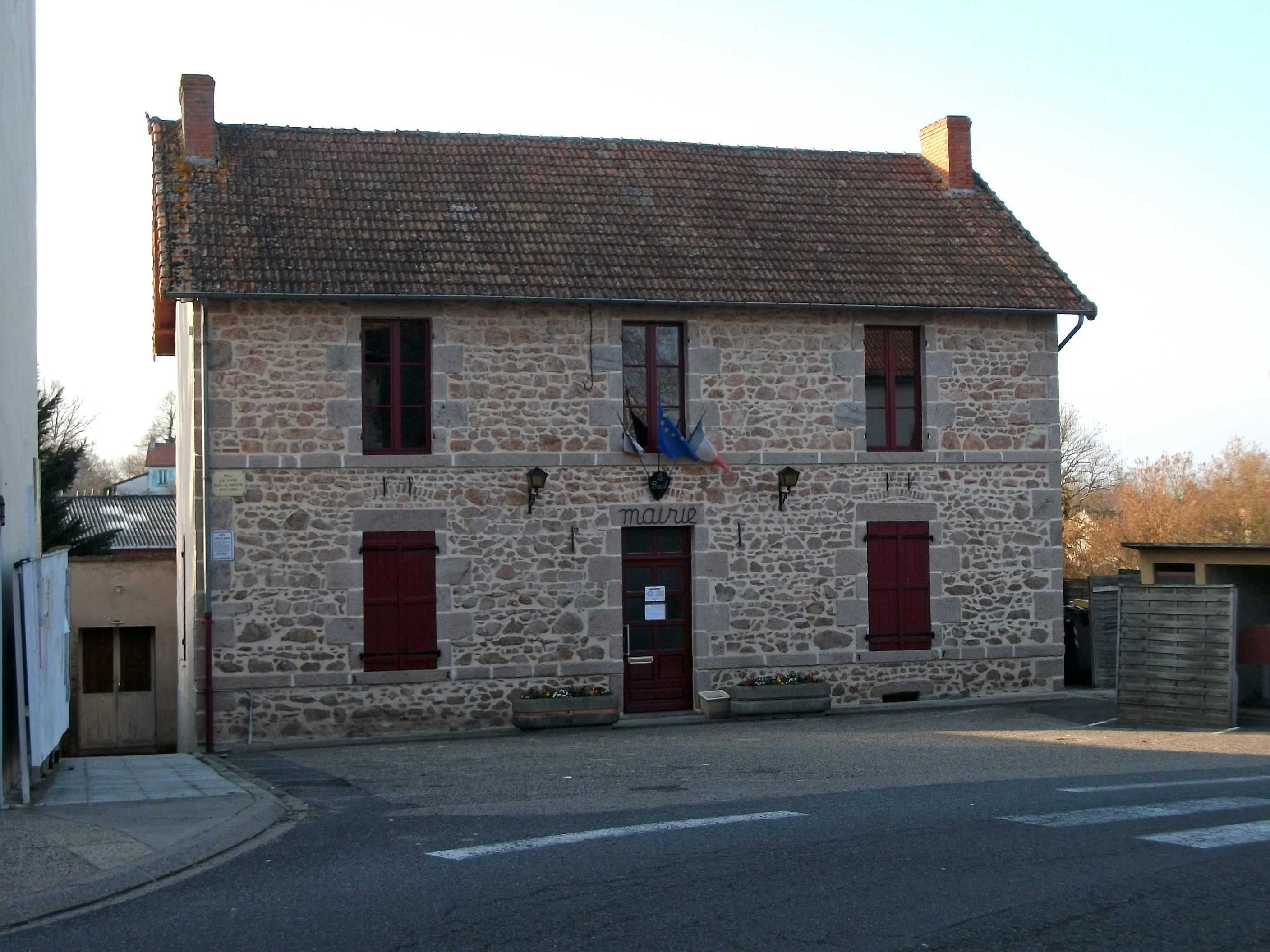 Town hall of Le Breuil, Allier [10393]